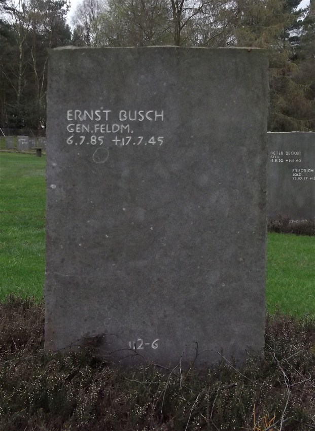 War grave of Field Marshall Ernest Busch. He is buried in Cannock Chase German war cemetery Staffordshire.